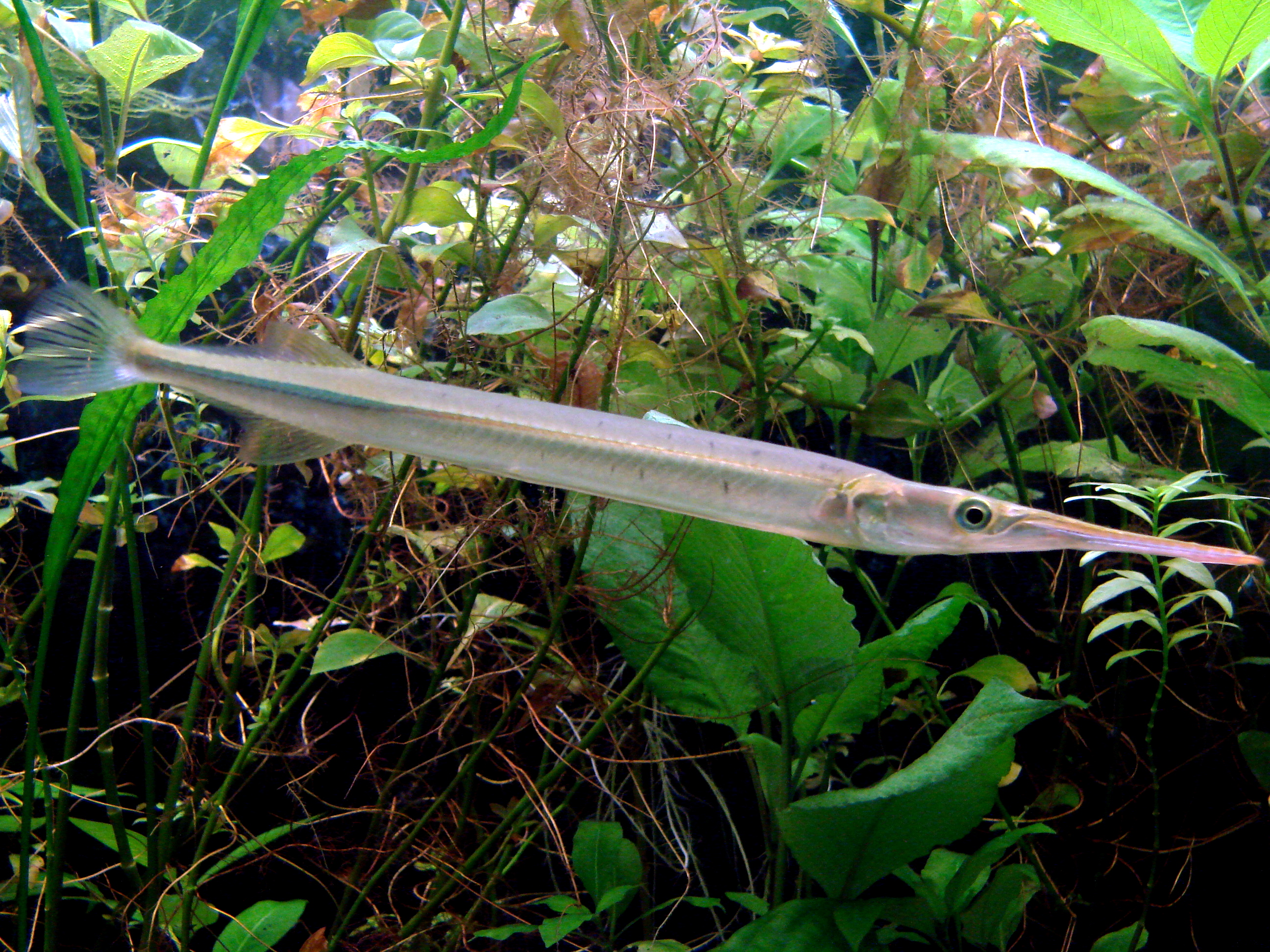 Picture taken in the zoo of Wrocław (Poland): Xenentodon cancila (Hamilton, 1822)